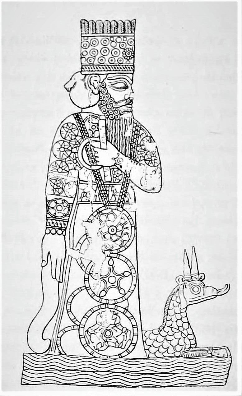 The Statue of Marduk depicted on a cylinder seal of the 9th century BC Babylonian king Marduk-zakir-shumi I. Detailed info, from Schaudig (2008), p. 559: Statue of Marduk, mounted on the mušḫuššu, the "fierce snake", standing in victory on the watery body of the vanquished Ti'āmat on occasion of the Babylonian New Year's festival. As one can see from the line separating the two layers of water, Ti'āmat has already been split by Marduk to be transformed into the "upper" and the "lower waters". From a cylinder seal, dedicated to Marduk by the Babylonian king Marduk-zākir-šumi (9th cent. BCE). Drawing taken from: F. H. Weissbach, Babylonische Miscellen. Wissen-schaftliche Veröffentlichungen der Deutschen Orient-Gesellschaft 4 (Leipzig, 1903), p. 16, fig. I.